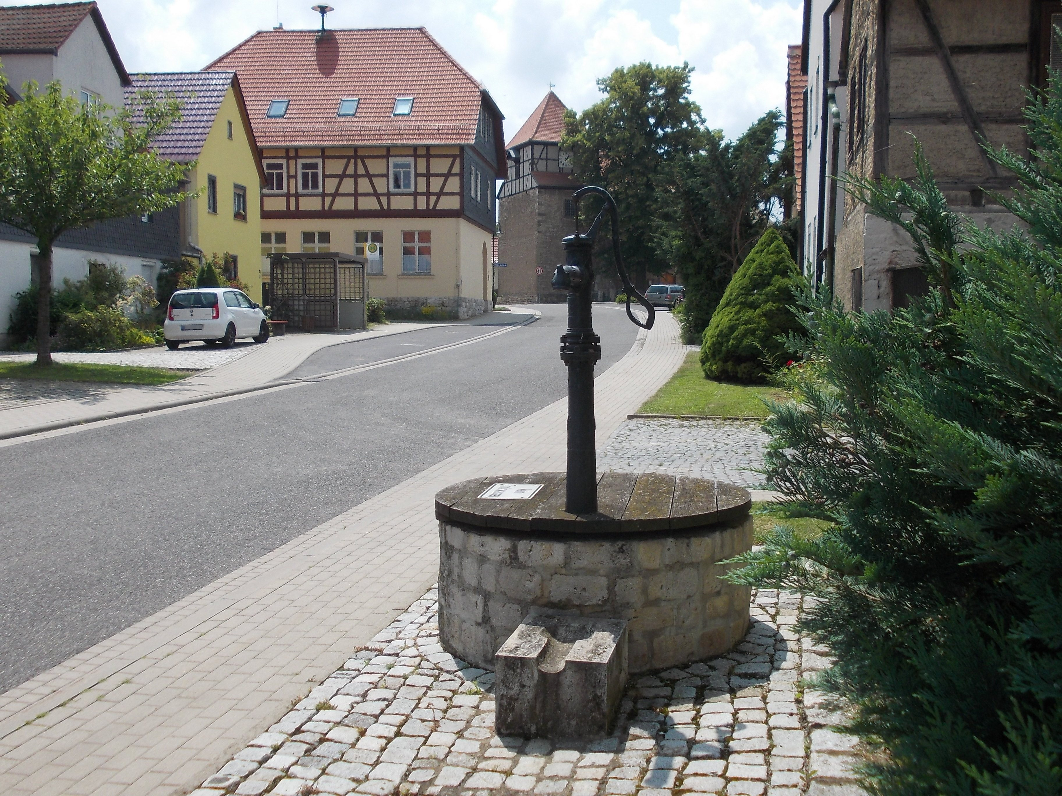 In Vollersroda (district: Weimarer Land, Thuringia)